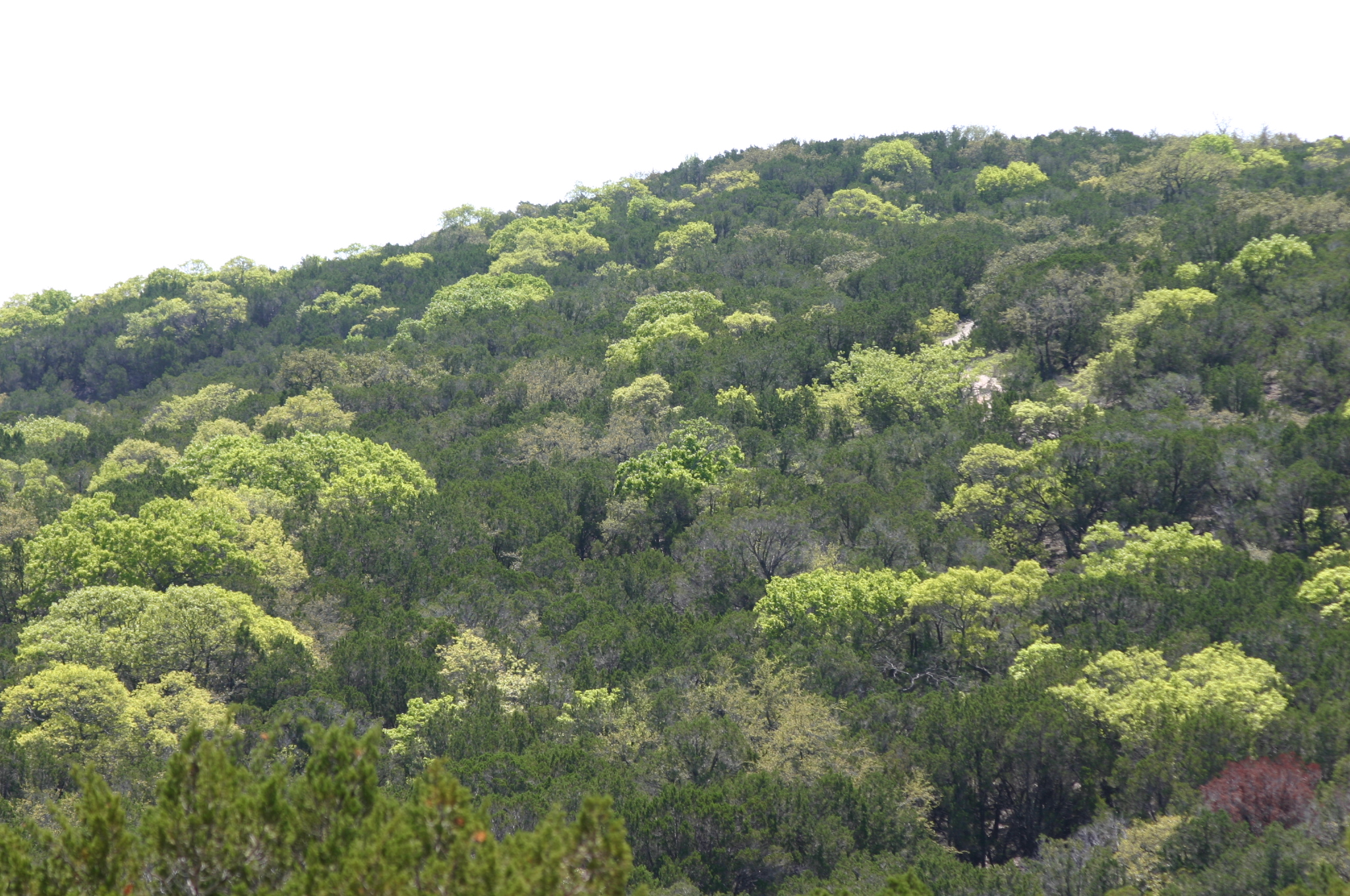 Deciduous annual trees have new light green leaves in spring in Pedernales Falls State Park near Johnson City, Texas. Photo was taken along the Wolf Mountain Trail.